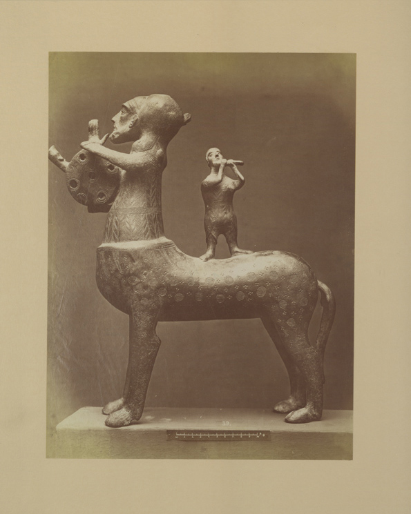 Aquamanile